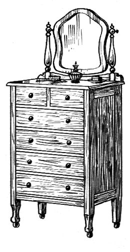 line art drawing of Chiffonier.